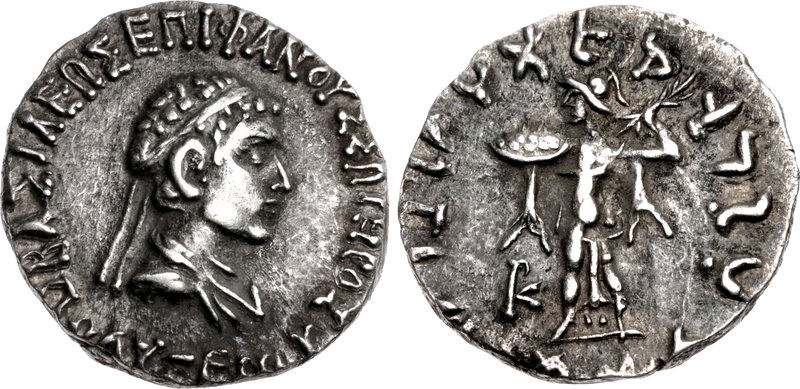 Polyxenos round bilingual